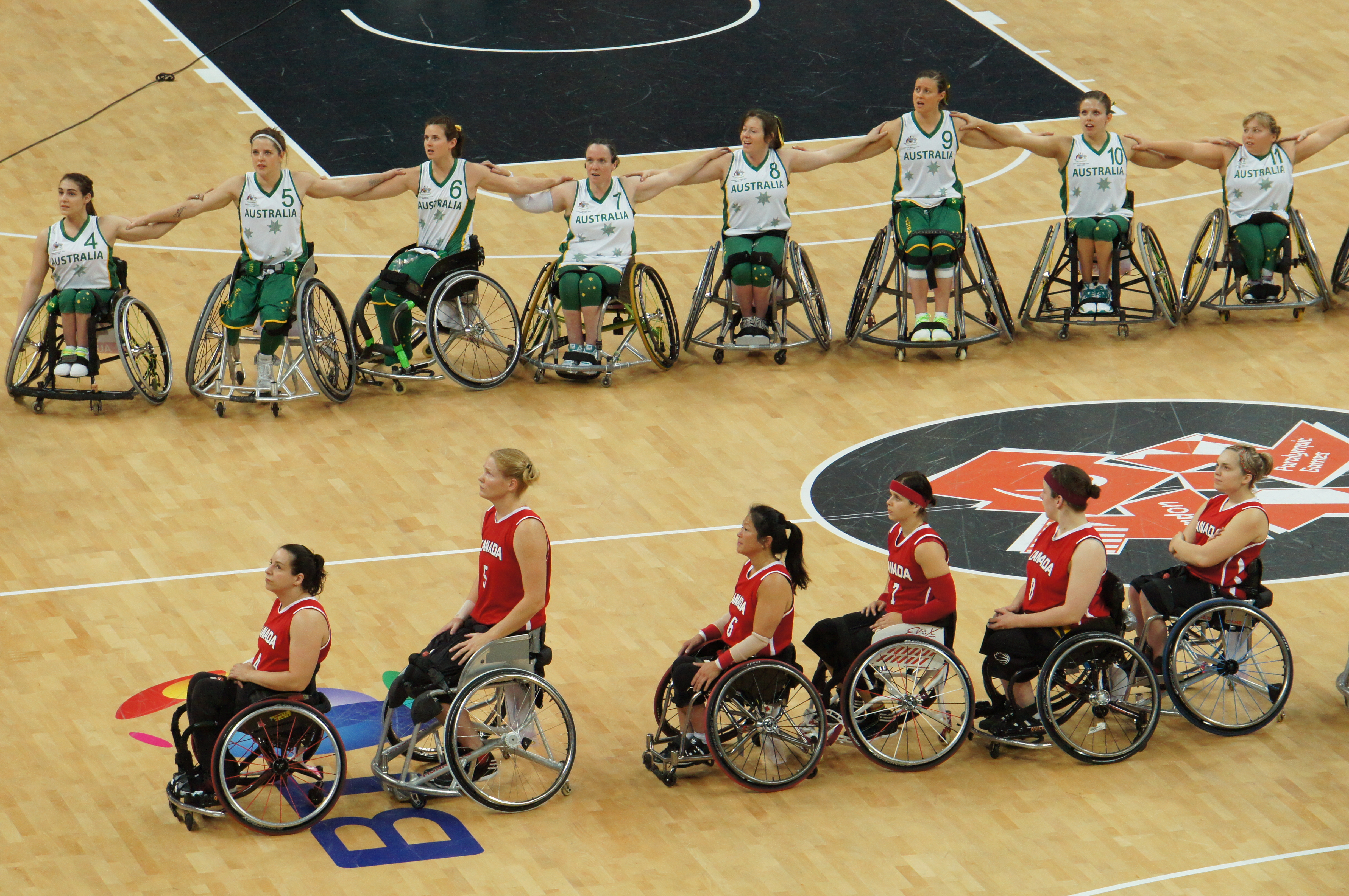 The women of Australia and Canada line up for the national anthems at the 2012 Paralympics